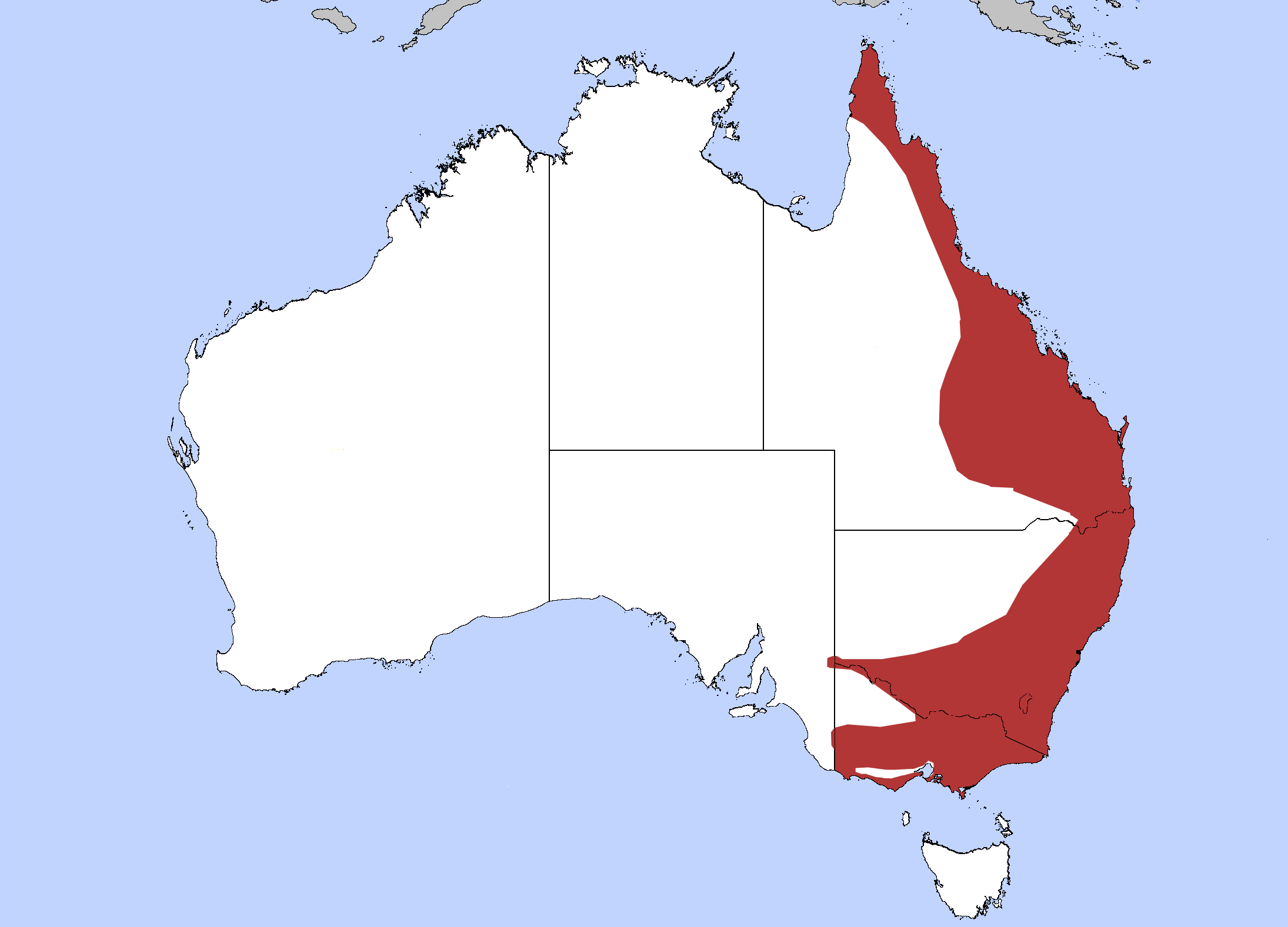 The Feathertail Glider's Distribution.